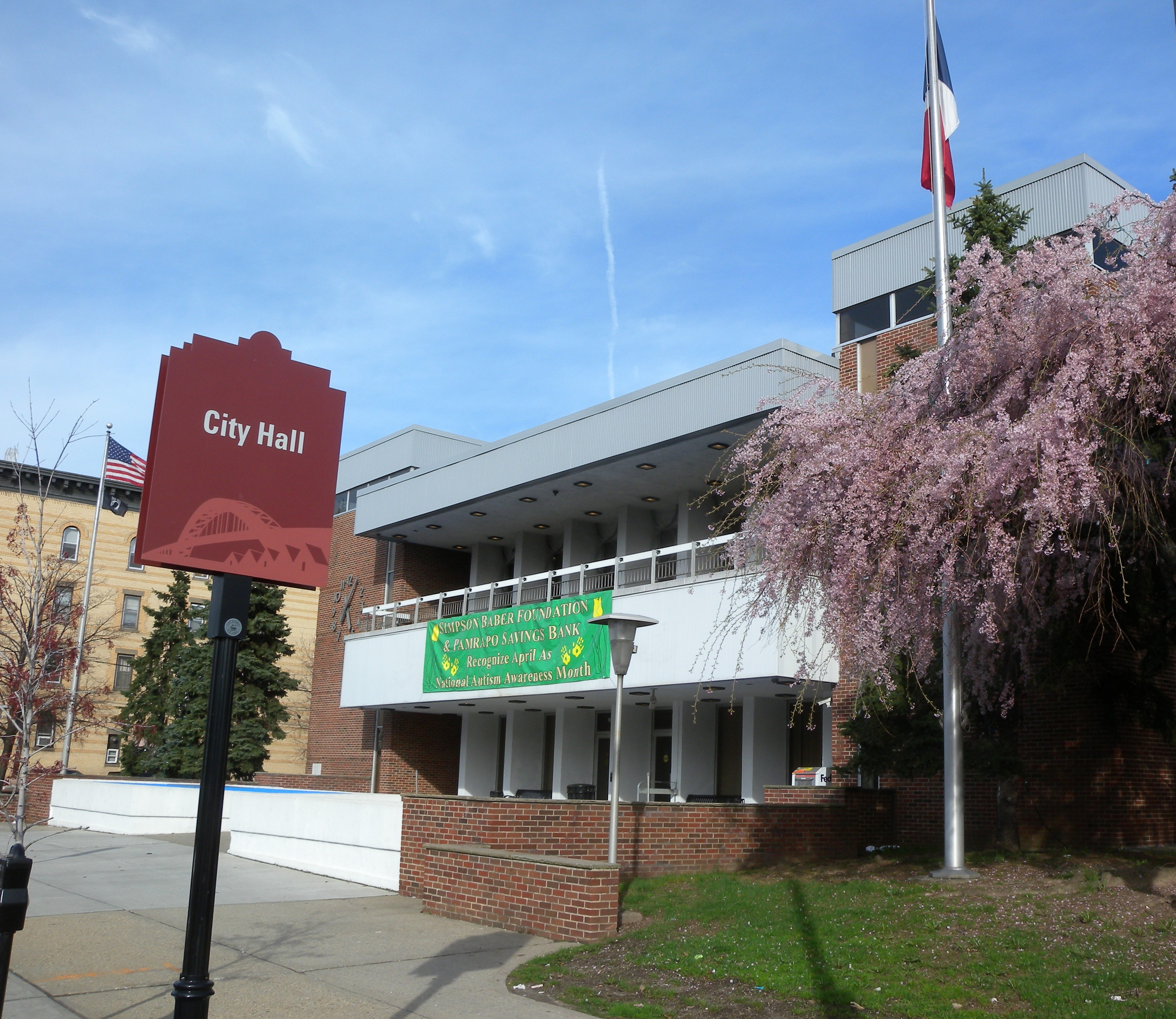 Looking east at City Hall on a sunny afternoon.